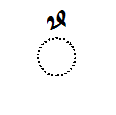 The letter Dammatan from the Arabic alphabet, belonging to the group of Harakat diacritic marks, used to represent vowels. The Dammatan (actually two Dammas) is found at the end of words in the undetermined nominative case and sounds like /un/. The circle indicates the position of the consonant the Harakat is used upon.